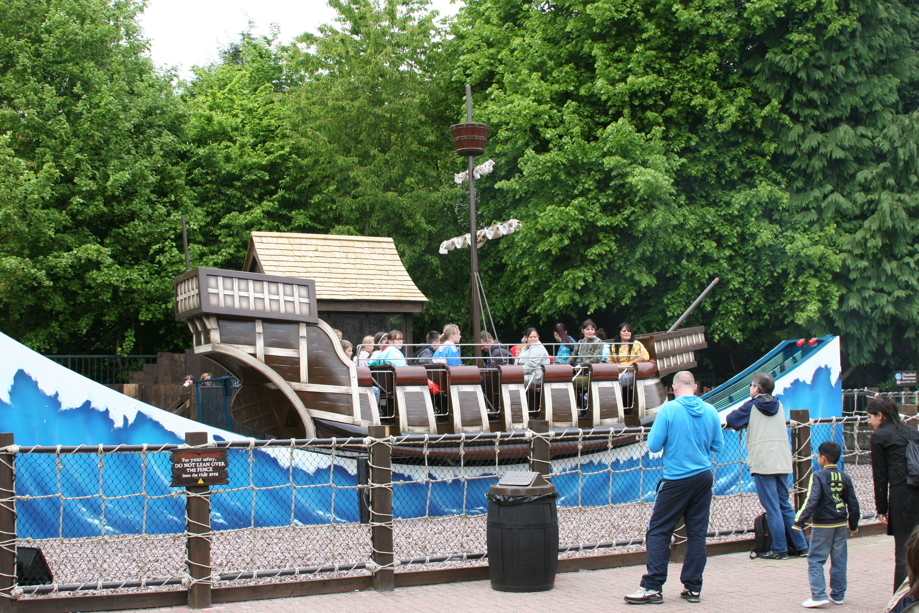 Alton Towers, UK.